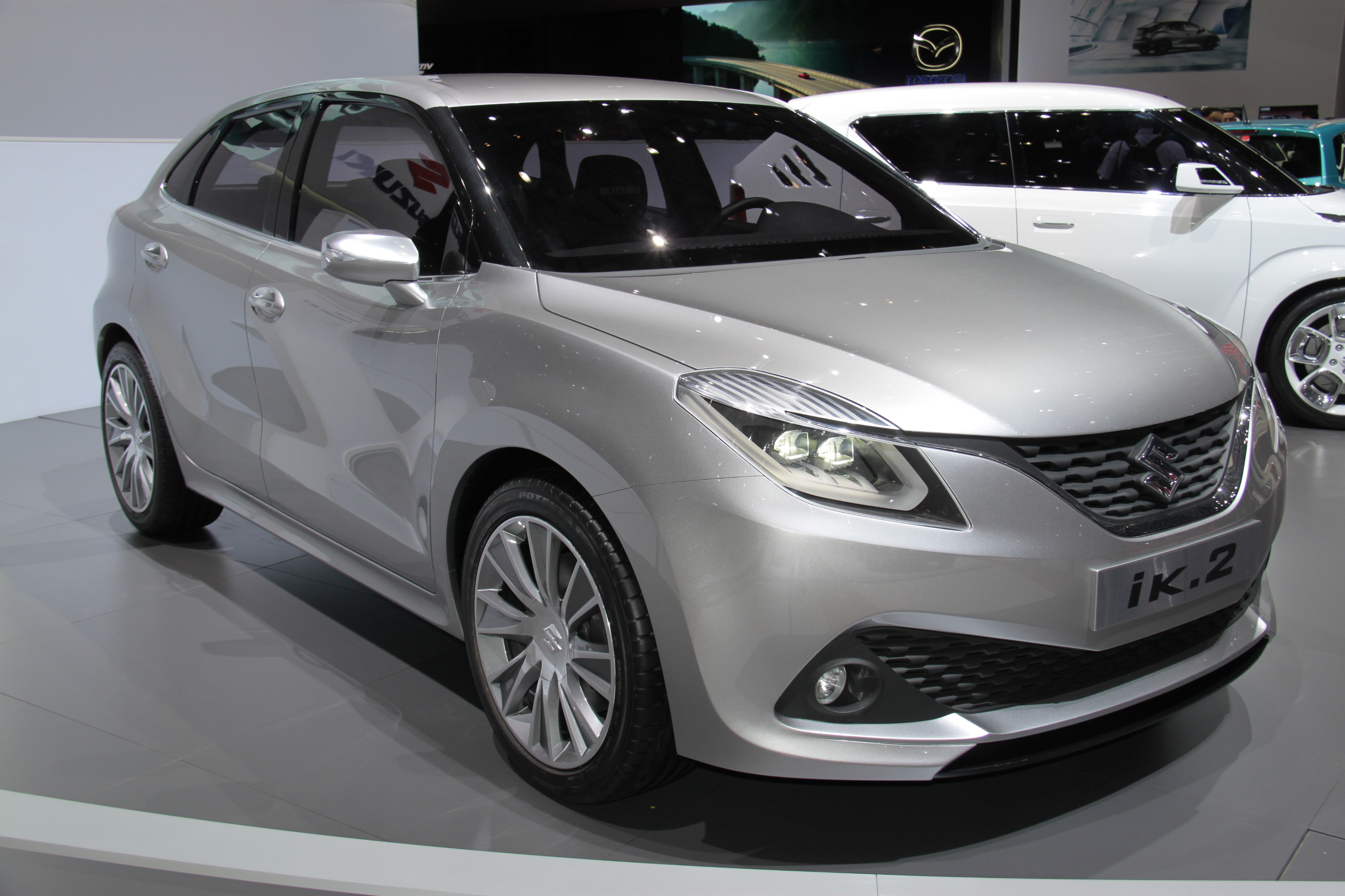 Suzuki Concept IK-2 at the 2015 Geneva Motorshow